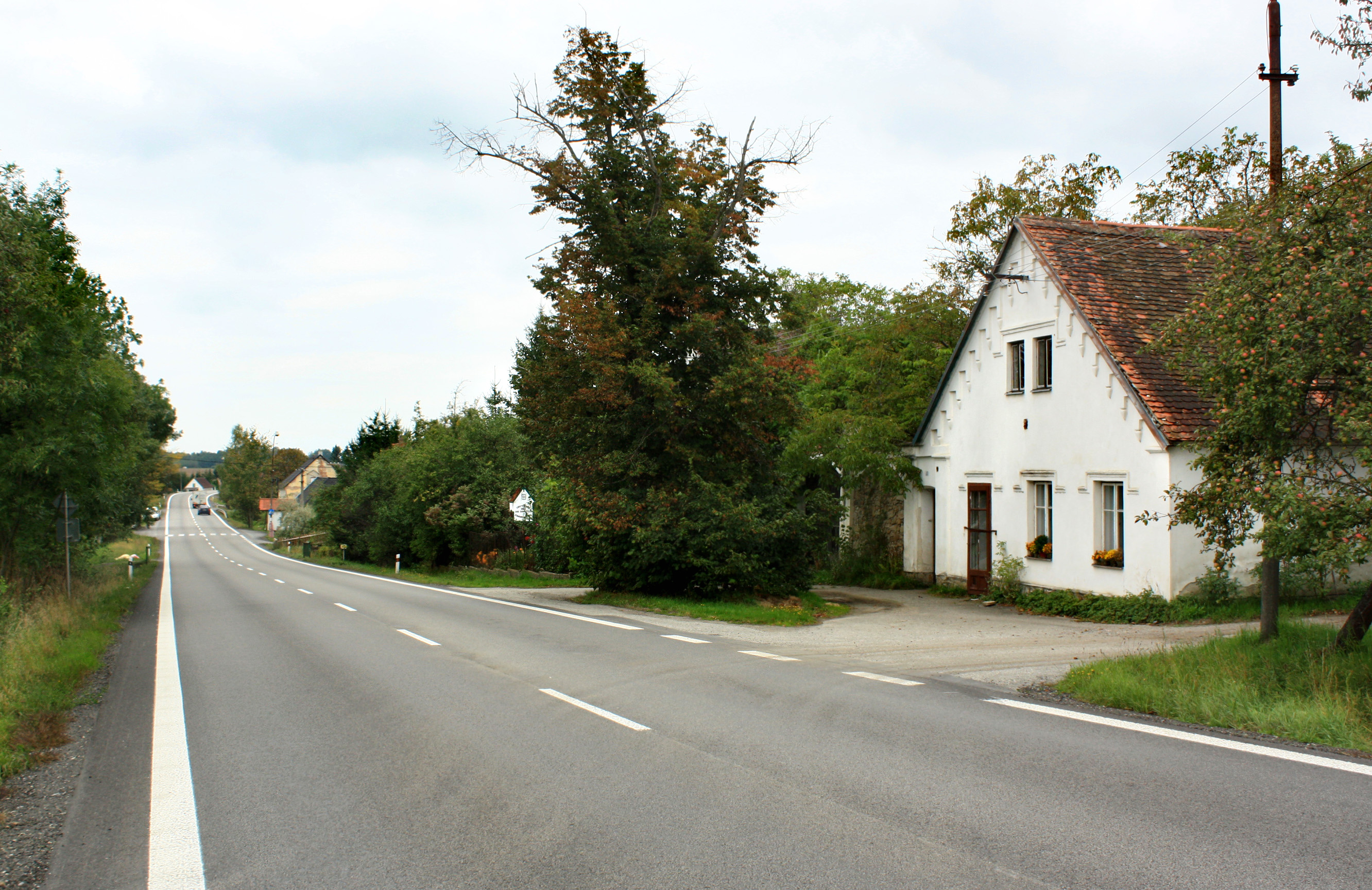 Road No 34 in Dolní Lhota, part of Stráž nad Nežárkou, Czech Republic